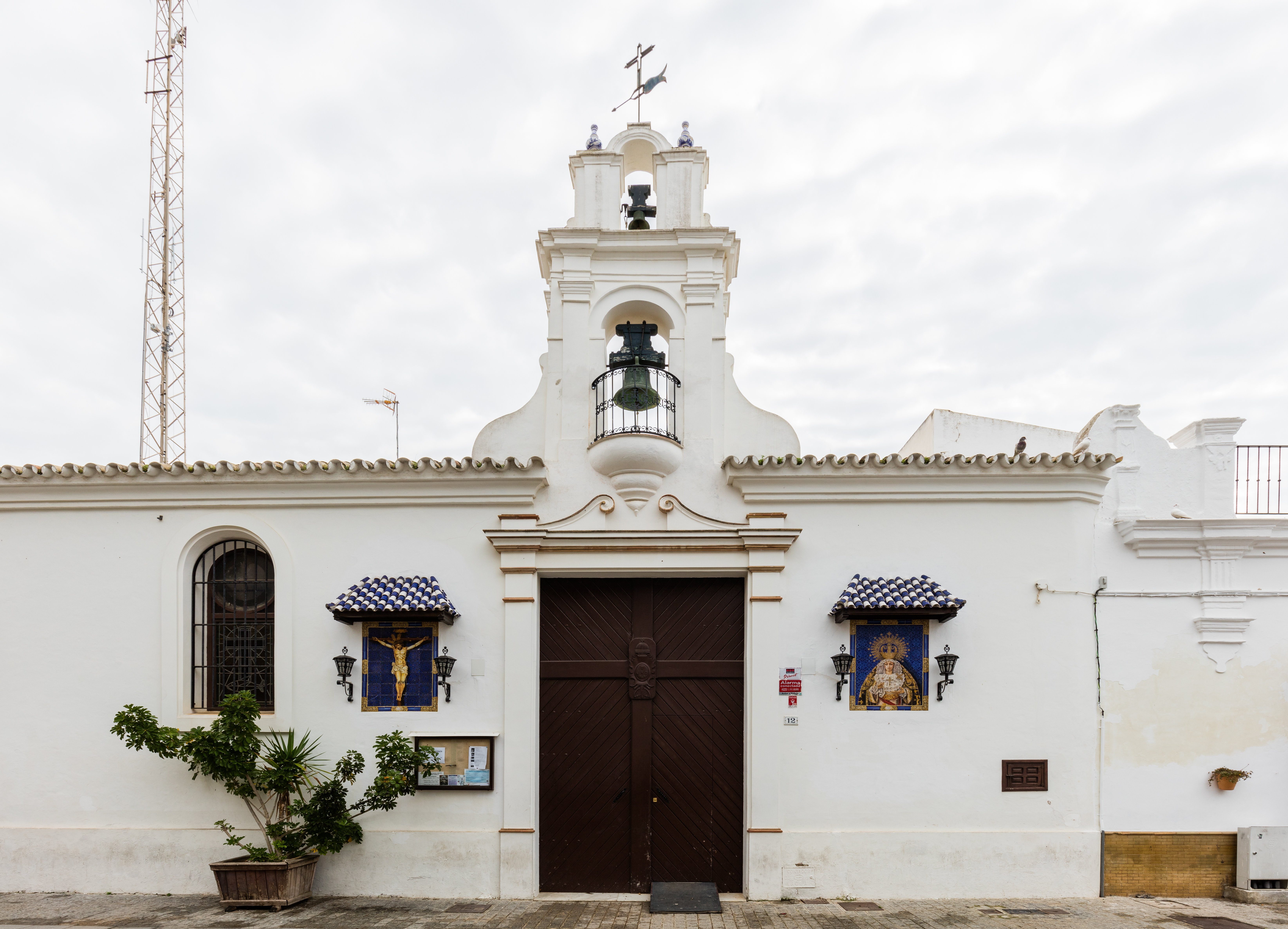 Hermitage of Cristo de las Misericordias, Chipiona, Spain